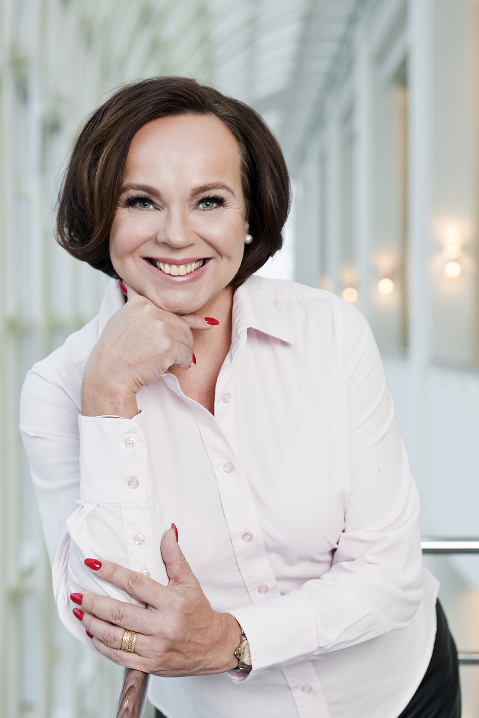 Liisamaija Hautsalo, Finnish musicologist and music critic